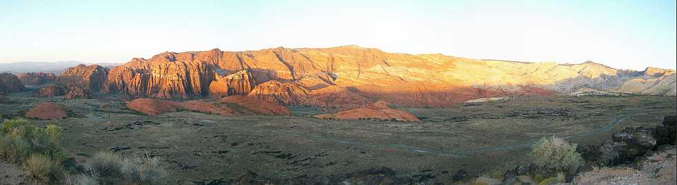 Snow Canyon Panorama